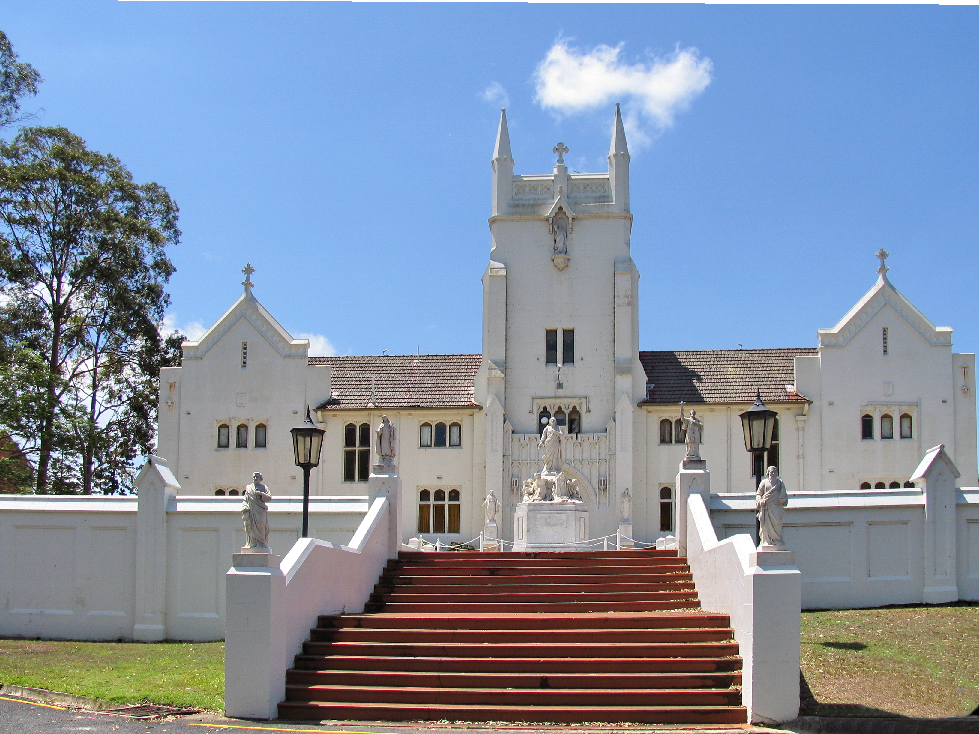 Main Entrance